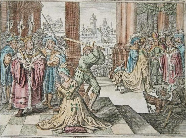 The beheading of Anne Boleyn, from BILDER SAALS, 1695.